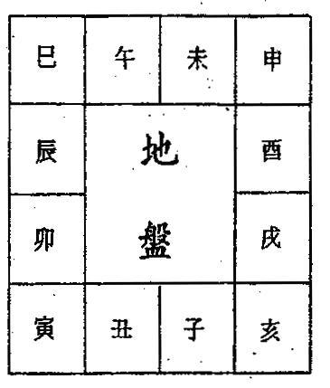 The Earth pan of the Da Liu Ren array. The Earth pan is generally not shown but is understood to reside below the Heaven Pan, which is usually illustrated.